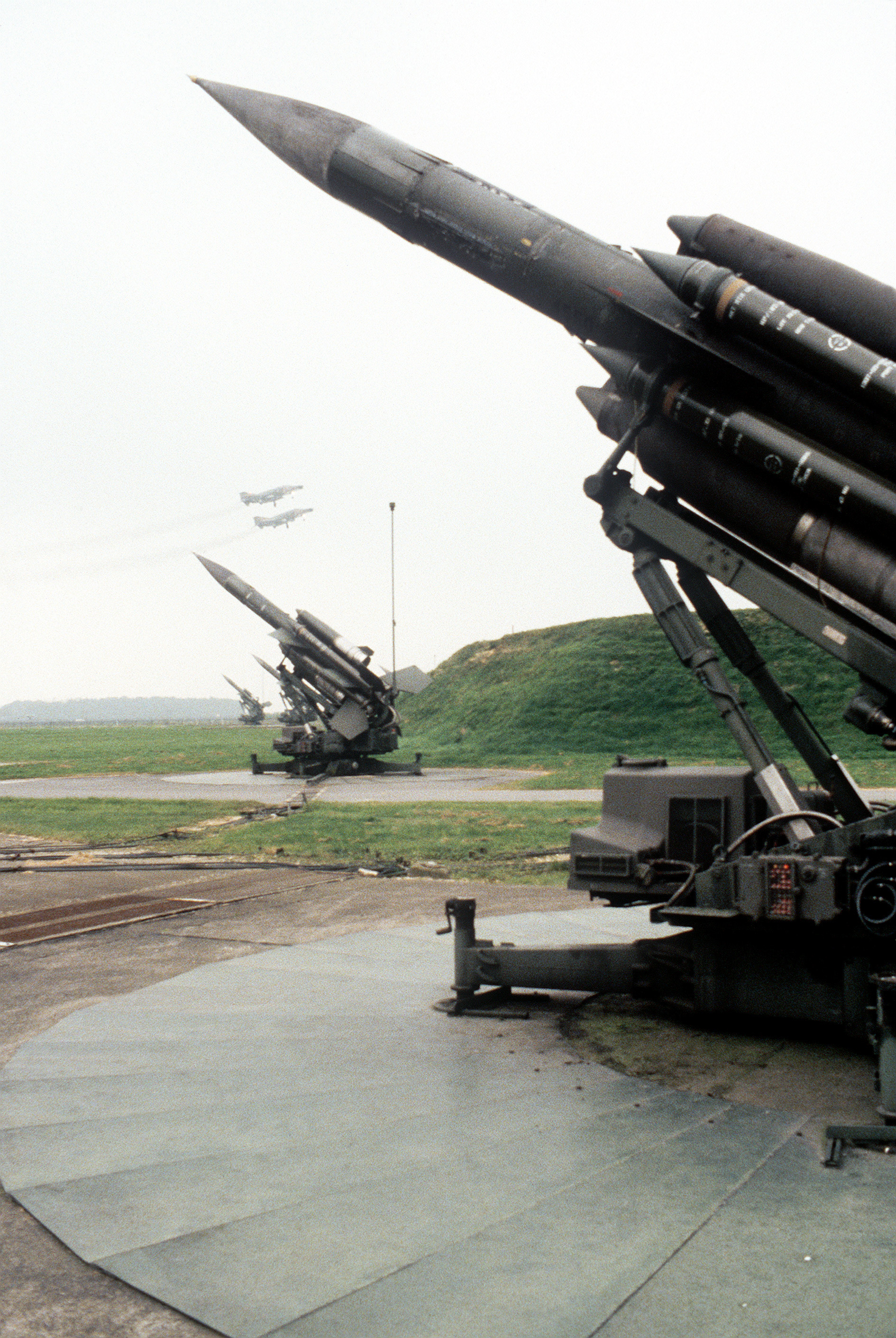 British Bloodhound Mark 2 surface-to-air weapon systems on 1 October 1982 during the "Reforger ´82" exercise. Two McDonnell Douglas F-4G Phantom II "Wild Weasel" aircraft from the 563rd Tactical Fighter Squadron, 35th Tactical Fighter Wing, George Air Force Base, California (USA), can be seen flying in the background (location unknown).